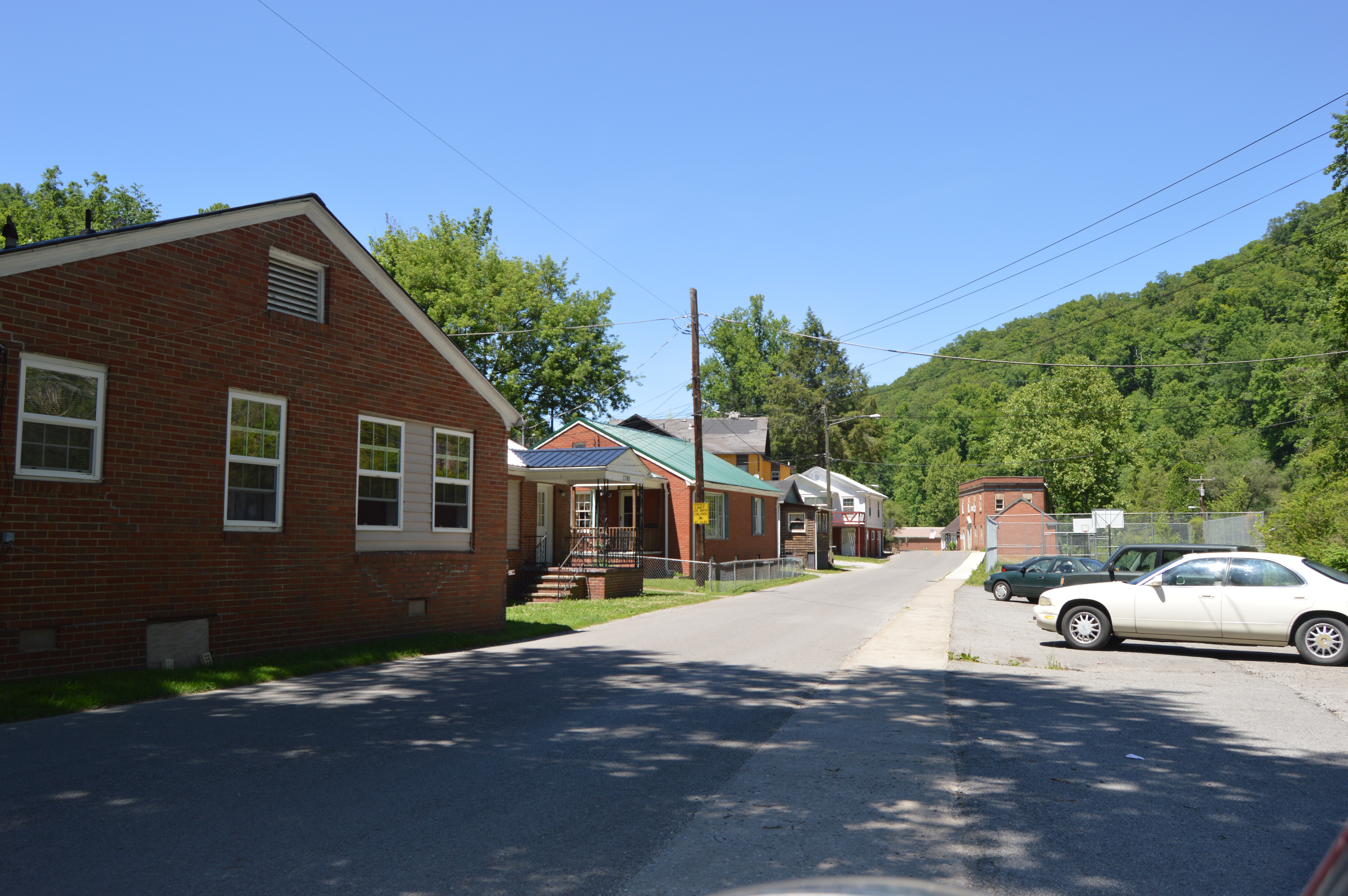 Looking north on Main Street (Kentucky Route 306) from a residential district toward downtown in Wheelwright, Kentucky, United States.